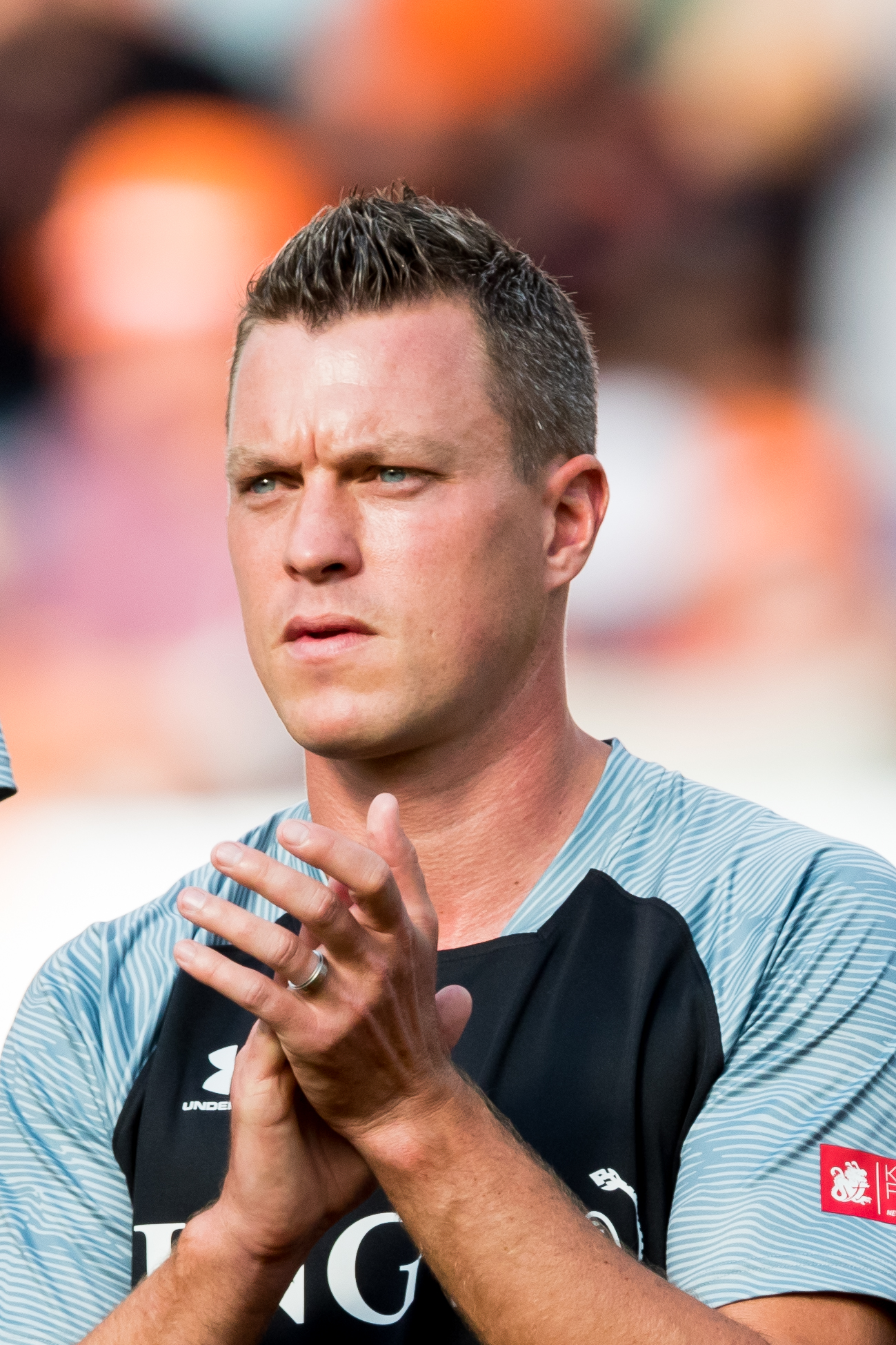 Hanno Balitsch during Champions for Charity at BayArena, Leverkusen, Nordrhein-Westfalen, Germany on 2019-07-21, Photo: Sven Mandel